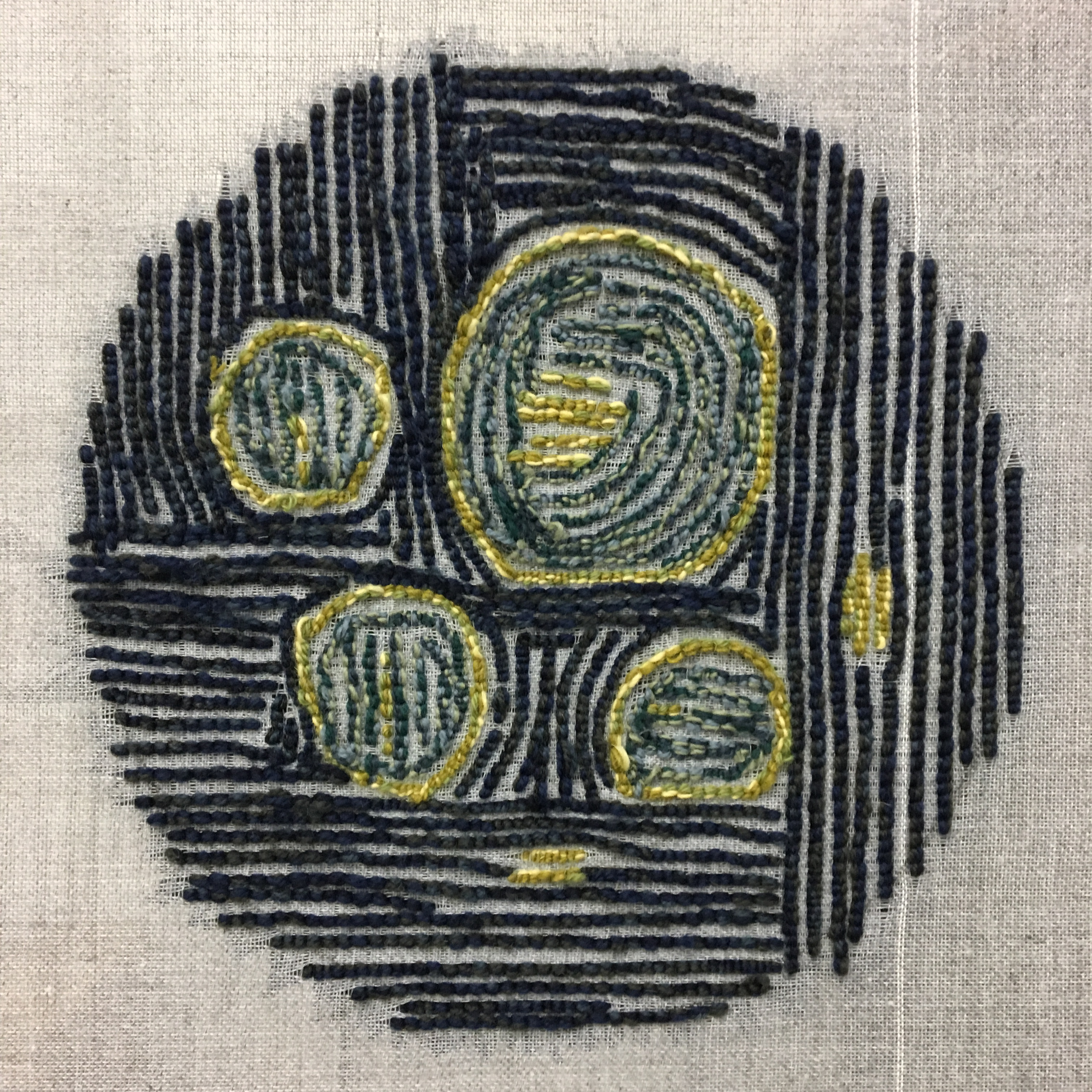 Handtufted art work, backside.